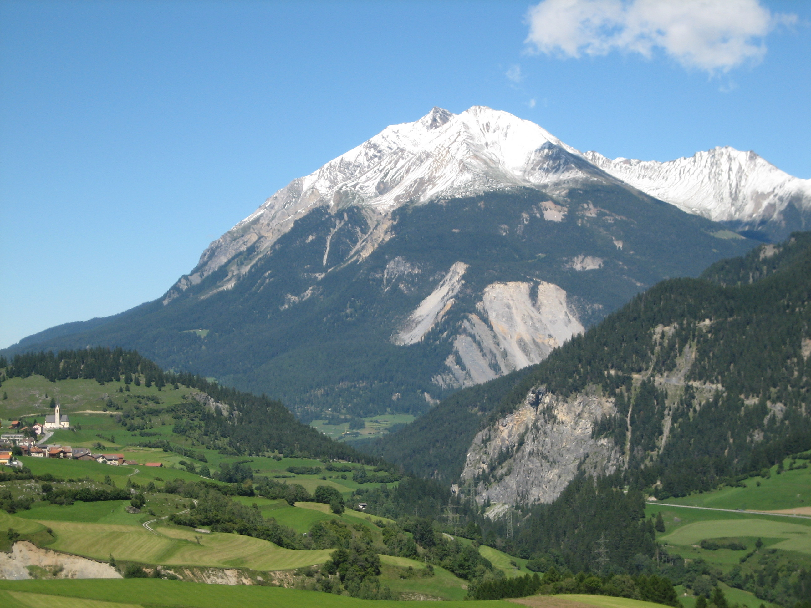 Piz Linard and Lenzerhorn from Riom, Grison, Switzerland